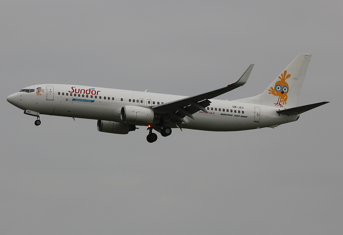 Sund'or OM-JEX at Ben Gurion Airport